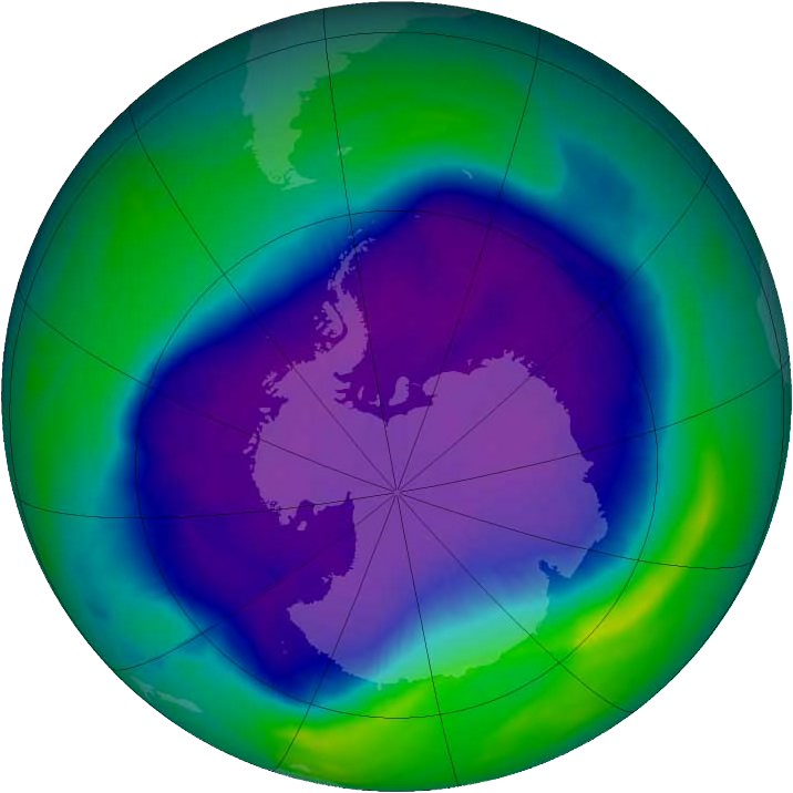 From September 21-30, 2006 the average area of the ozone hole was the largest ever observed, at 10.6 million square miles (27.5 million square kilometres). This image, from September 24, the Antarctic ozone hole was equal to the record single-day largest area of 11.4 million square miles (29.5 million square kilometres), reached on Sept. 9, 2000. Satellite instruments monitor the ozone layer, and we use their data to create the images that depict the amount of ozone. The blue and purple colors are where there is the least ozone, and the greens, yellows, and reds are where there is more ozone.